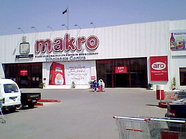 Typical Makro Store in Karachi, Pakistan